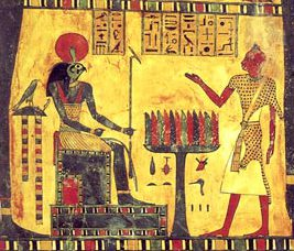 The Stele of Revealing. A funerary tablet by Ankh-af-na-khonsu, a 26th dynasty (apx. 725 BCE) Theban priest.